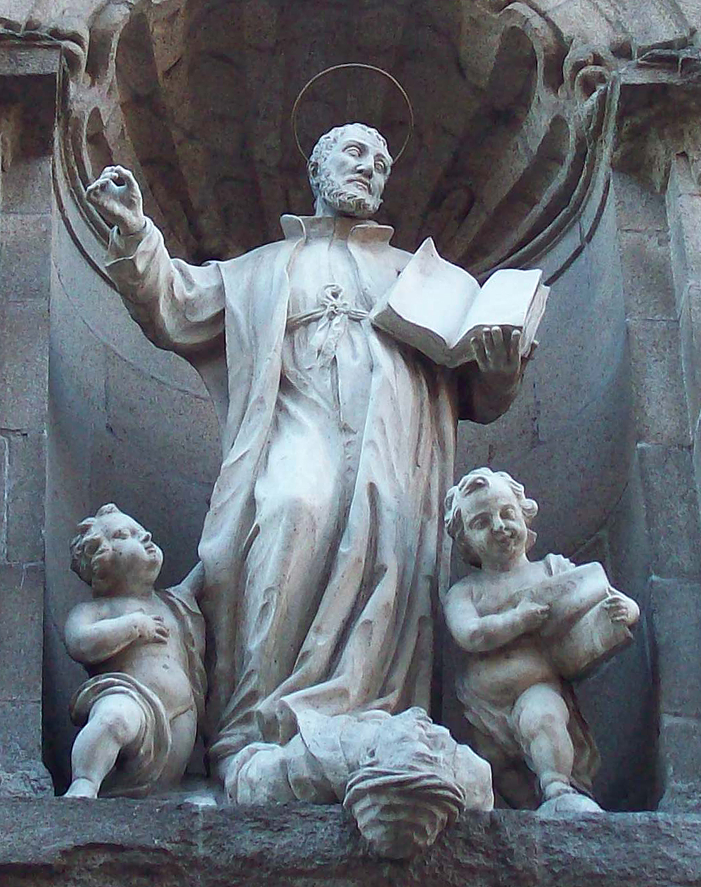 Depicted person: Saint Cajetan